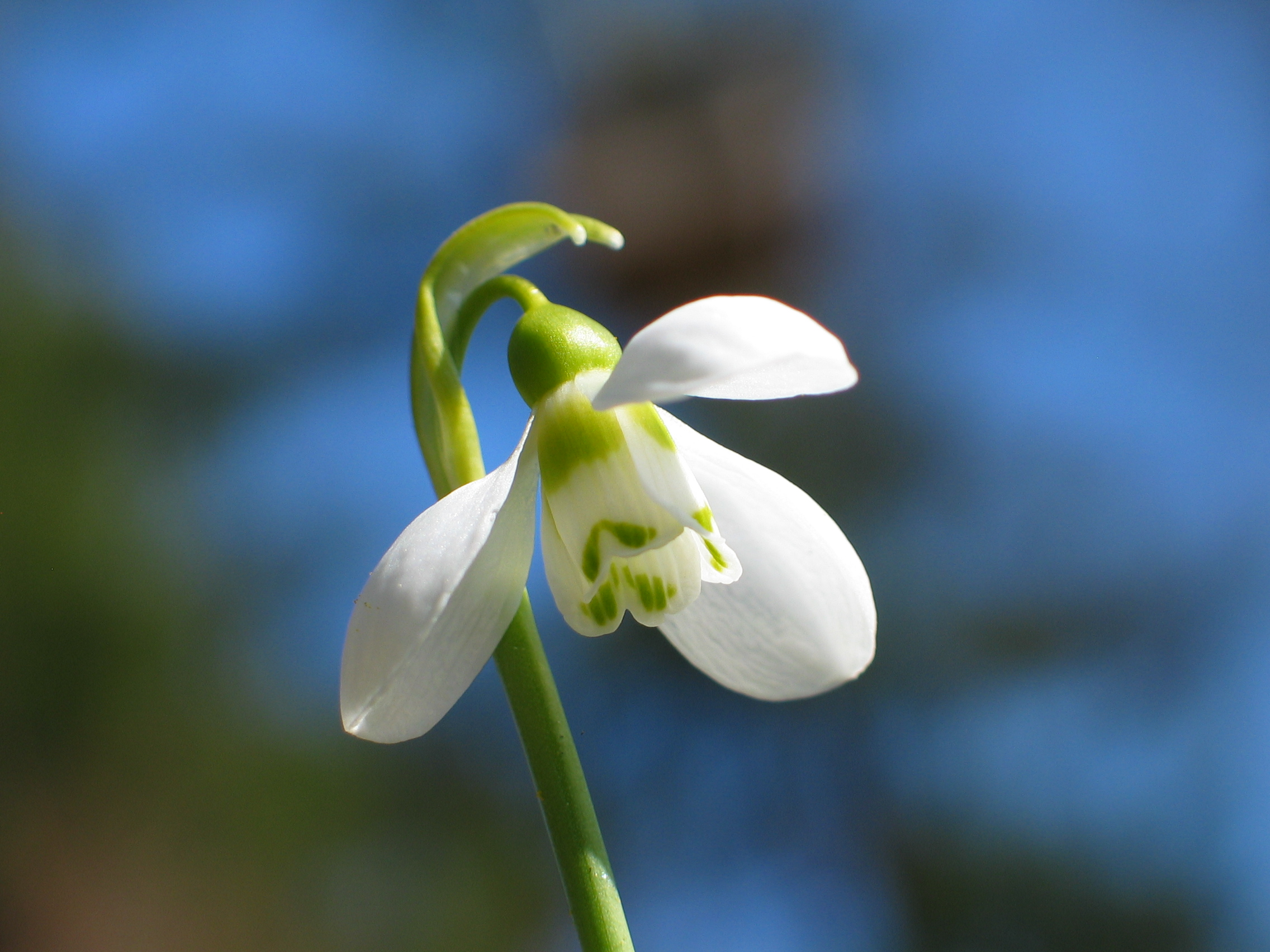 Snowdrop flower. Uppland, Sweden.